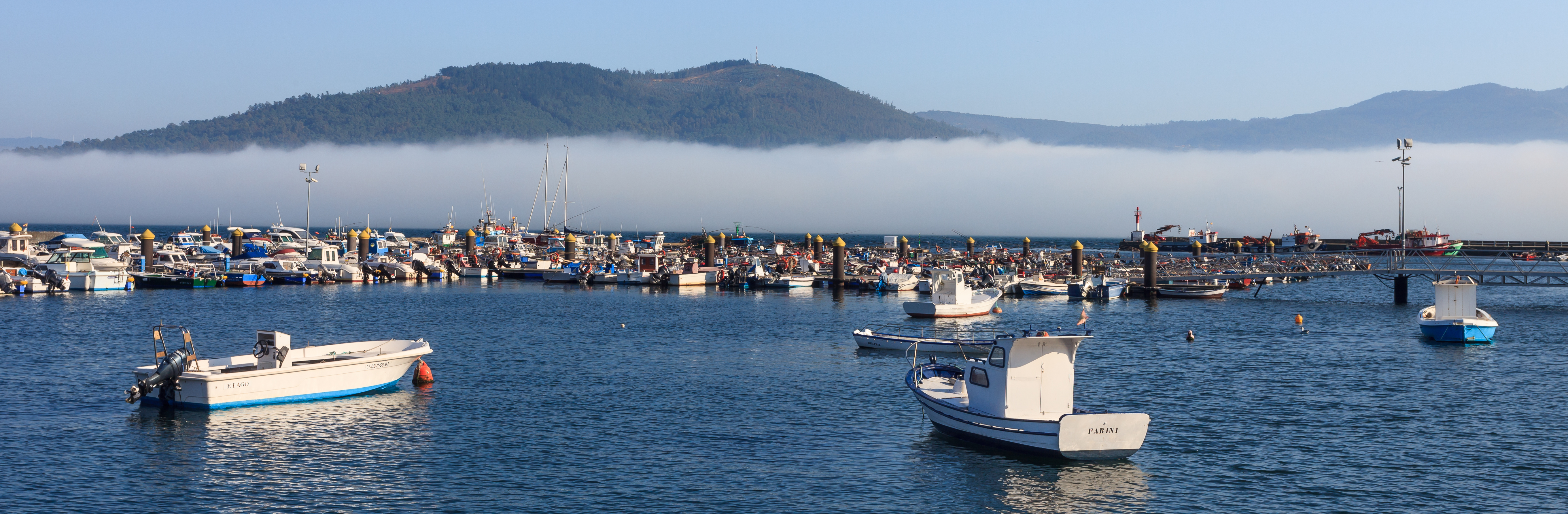 Fog on the coast. Dock of O Freixo de Sabardes, Outes, Galicia (Spain).